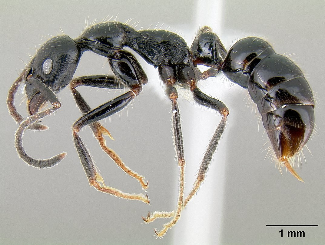 Profile view of ant Leptogenys diminuta specimen casent0106010.